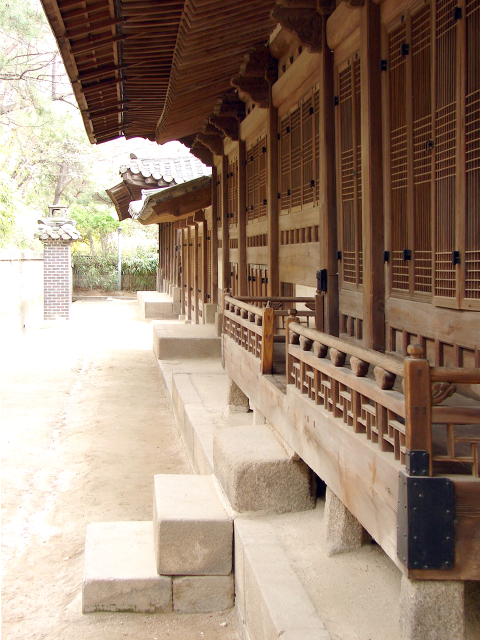 Unhyeon Palace (운현궁) is the former Korean royal residence of Prince Regent Daewon-gun, ruler of Korea during the Joseon Dynasty in the 19th century, and father of Emperor Gojong. The site dates from the 14th century. In 1993 Unhyeon Palace underwent 3 years of renovations to restore its earlier appearance.